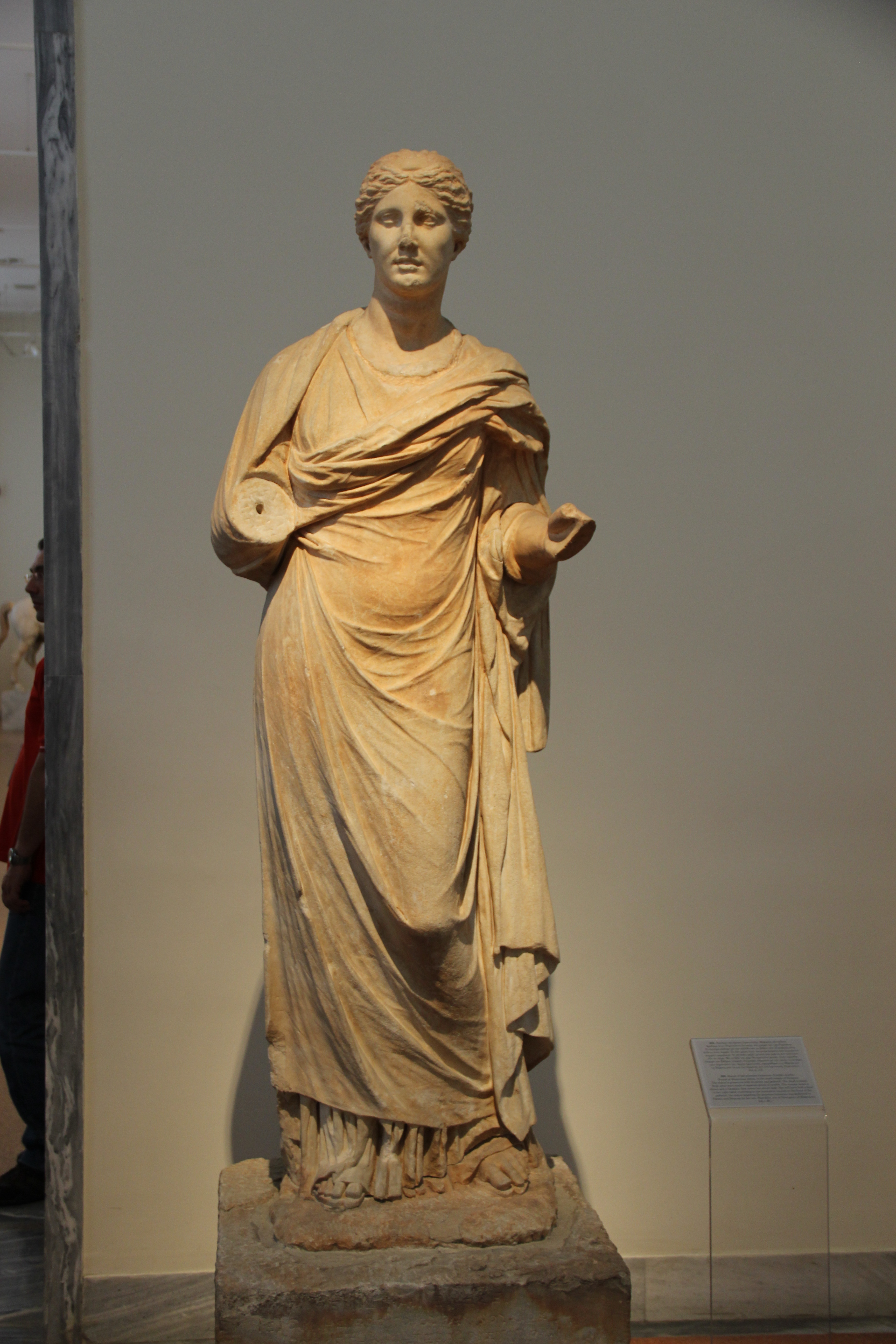 Athens Stone Sculpture Gallery, National Archaeological Museum of Greece, Athens, Greece. Complete indexed photo collection at .